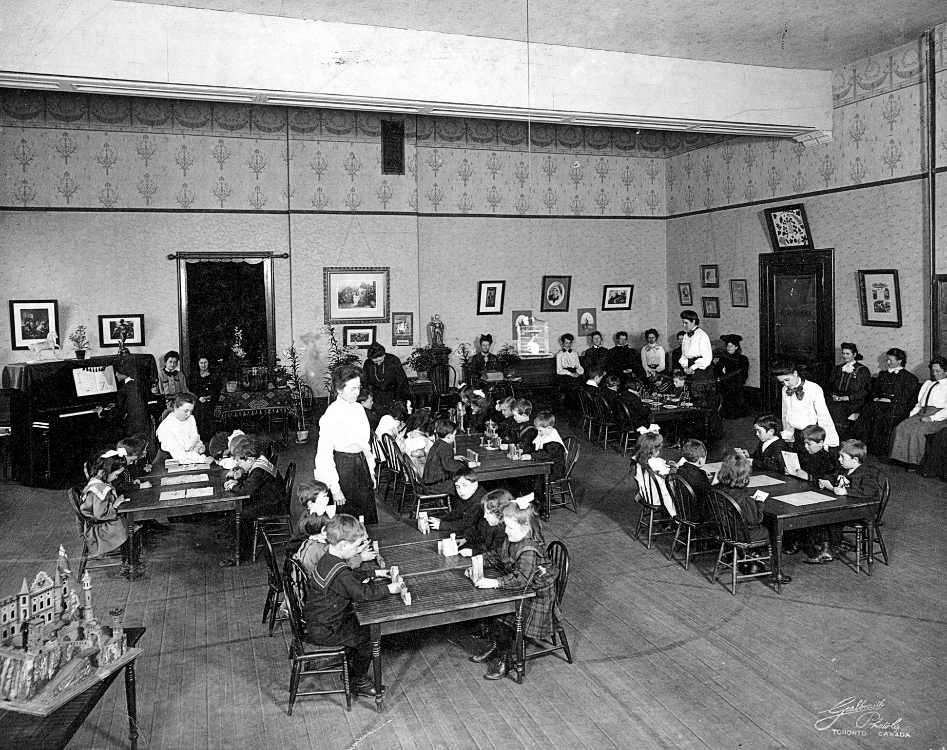 Student teachers practice teaching kindergarten at the Toronto Normal School, Canada